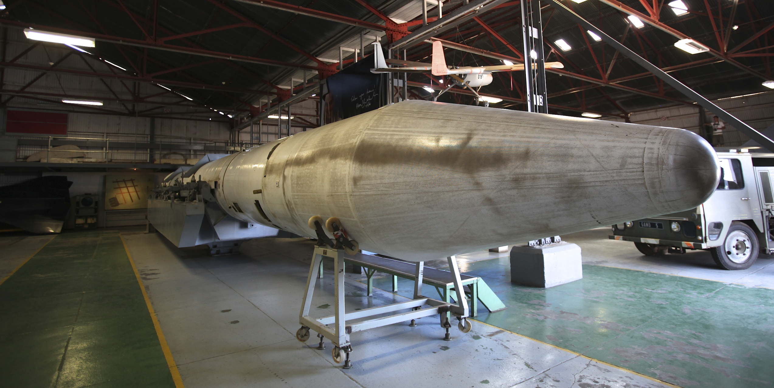 RSA-3 LEO Rocket. SAAF museum, Swartkop, Pretoria